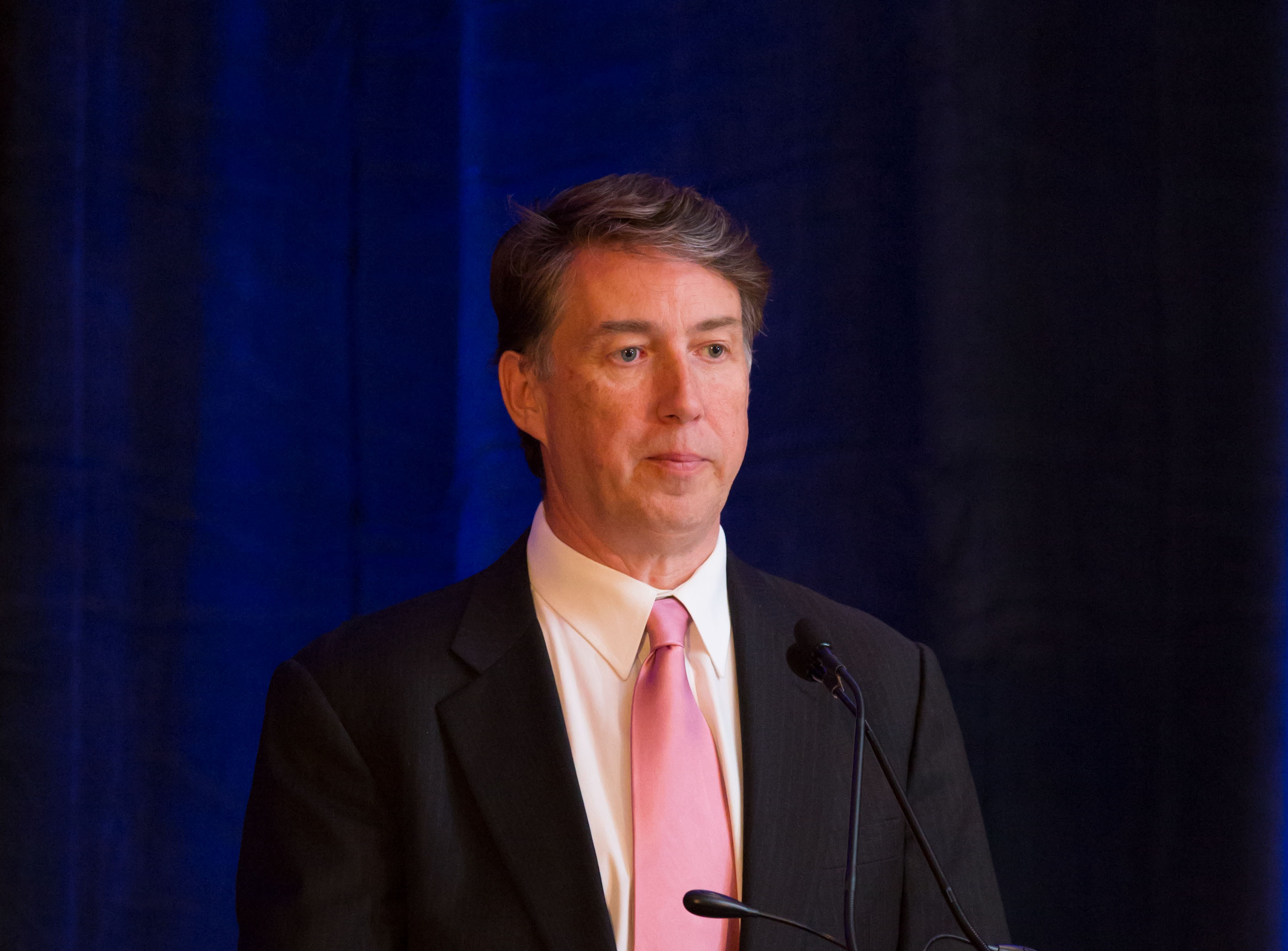 Photograph of Paul Anastas, speaker at Innovation Day, September 16, 2014, at the Chemical Heritage Foundation, Philadelphia, PA, USA.